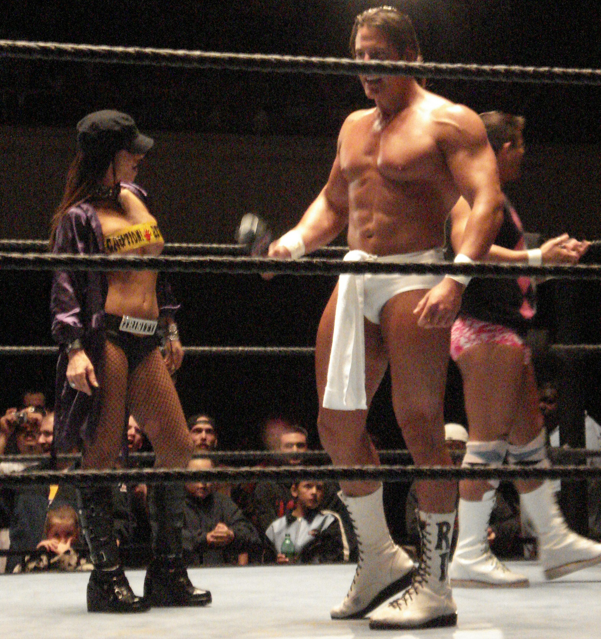 Trinity, Rene Dupree, and Matt Striker at an ECW live event. Racine. October 282006. Taken by me.